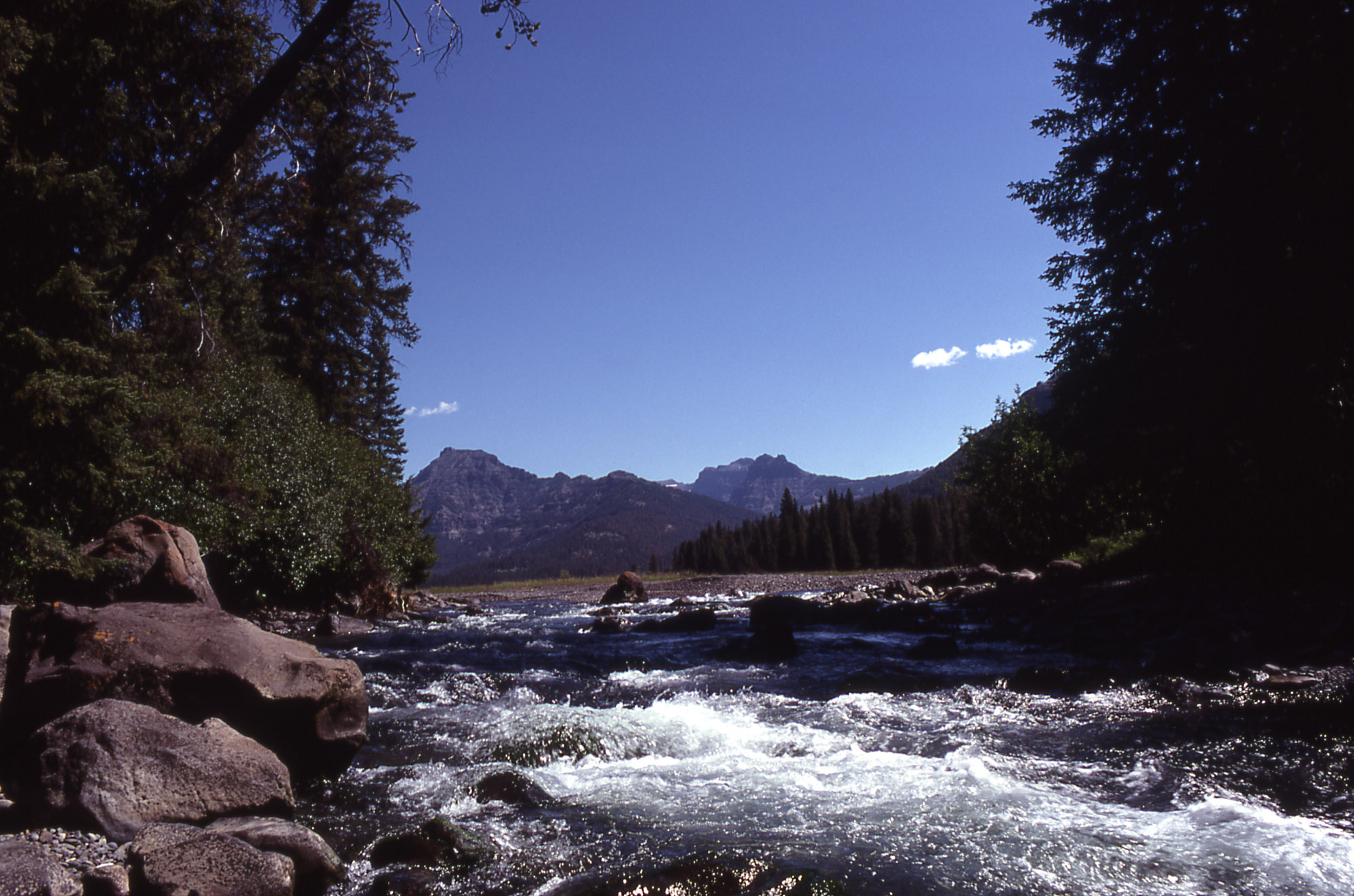 Soda Butte Creek in Yellowstone National Park (1979)